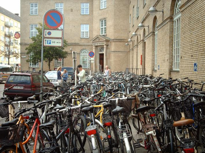 The bike park in front of the train station of Aarhus, Denmark.